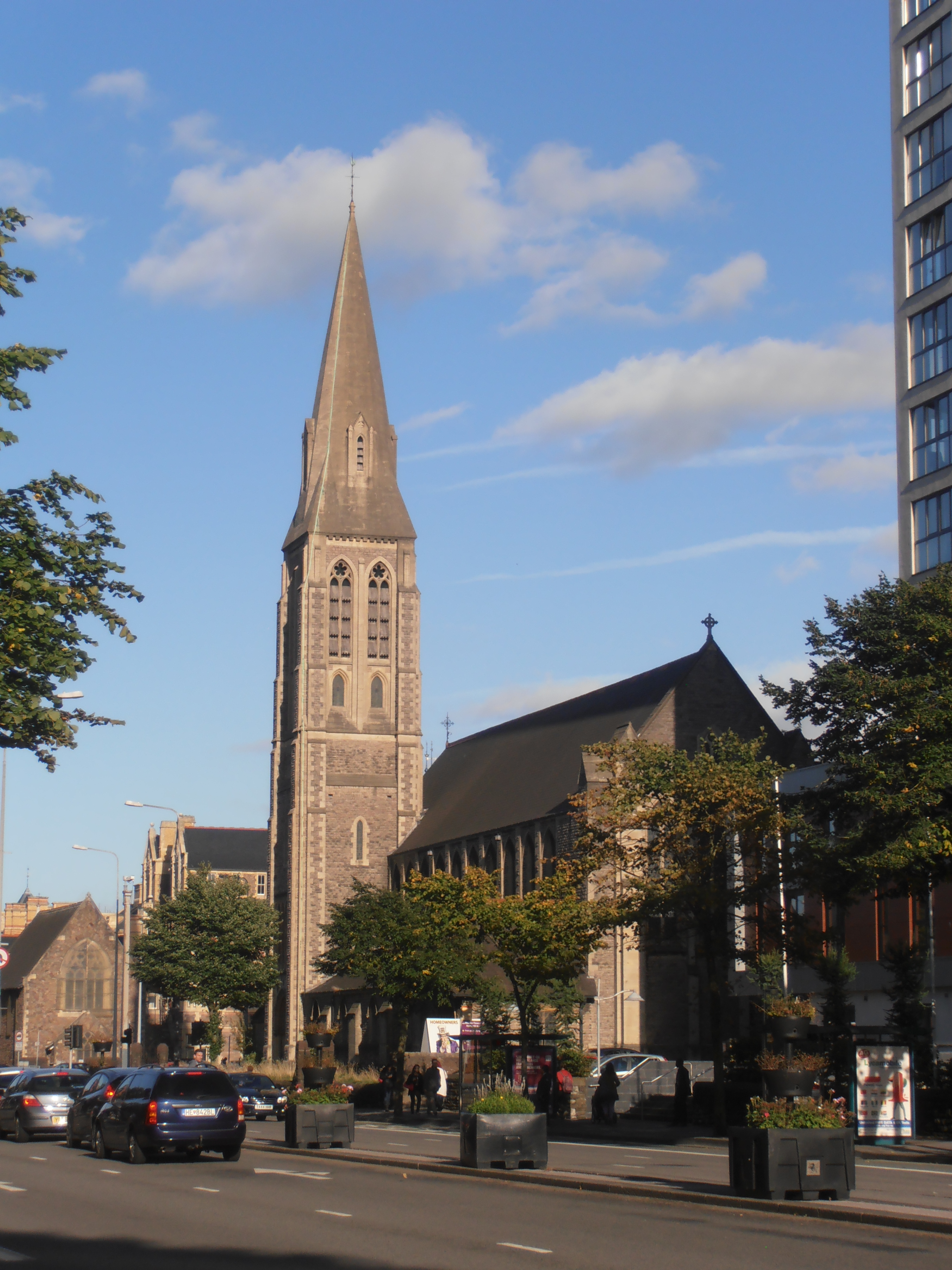 Church of St James the Great, Newport Road, Cardiff (E. M. Bruce Vaughan, 1892–3)